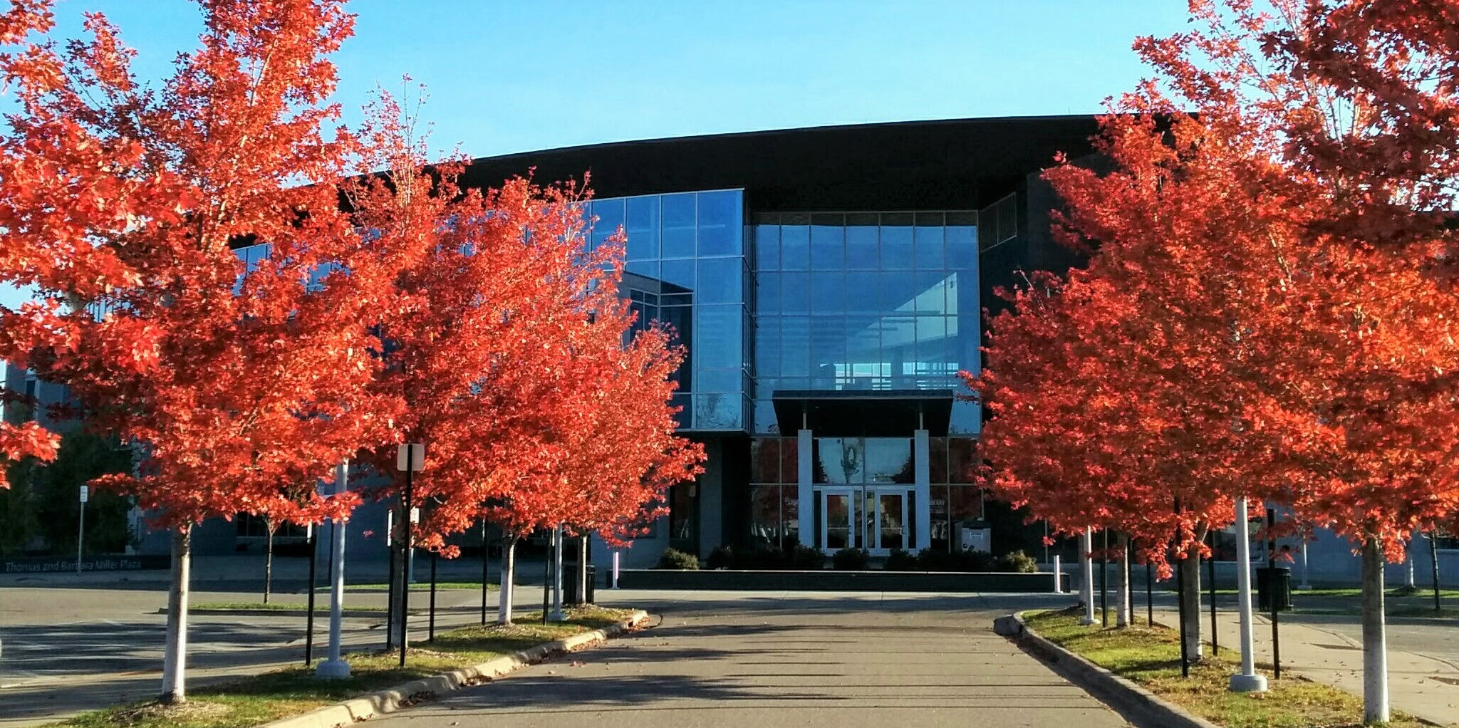 Facade of the Saint Cloud Public Library, the central branch of the Great River Regional Library system. The front door and glass windows of the second floor are shown flanked by trees with autumn color.